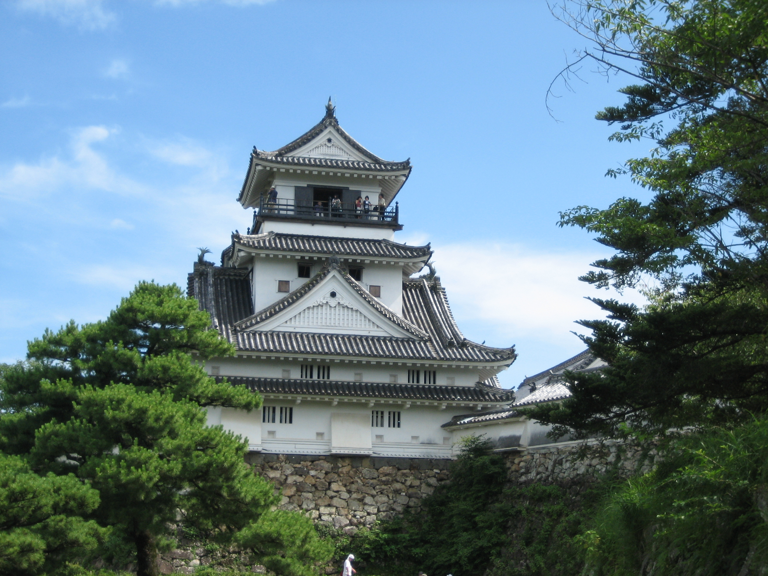 The keep of Kōchi Castle (Japan's national important cultural property) Kōchi City, Kōchi Pref., Japan